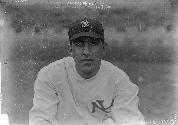 Bain News Service,, publisher. [Roger Peckinpaugh, New York AL (baseball)] [1913] 1 negative : glass ; 5 x 7 in. or smaller. Notes: Original data provided by the Bain News Service on the negatives or caption cards: Peckinpaugh, Yankees. Corrected title and date based on research by the Pictorial History Committee, Society for American Baseball Research, 2006. Forms part of: George Grantham Bain Collection (Library of Congress). Format: Glass negatives. Repository: Library of Congress, Prints and Photographs Division, Washington, D.C. 20540 USA, General information about the Bain Collection is available at Persistent URL: Call Number: LC-B2- 2712-16